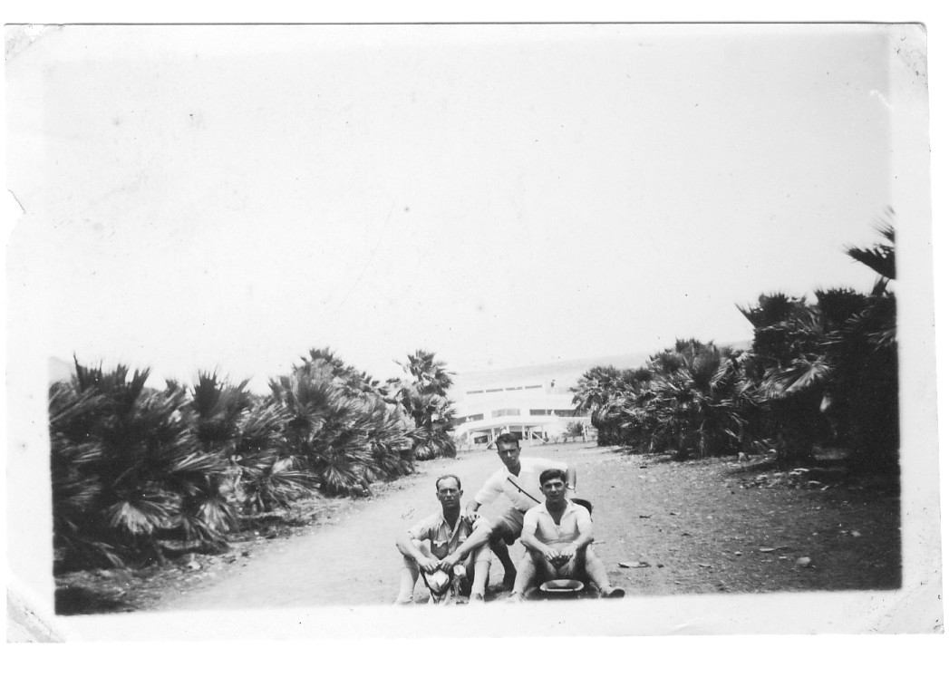 kibbutz Tel Yosef plantations in the forties